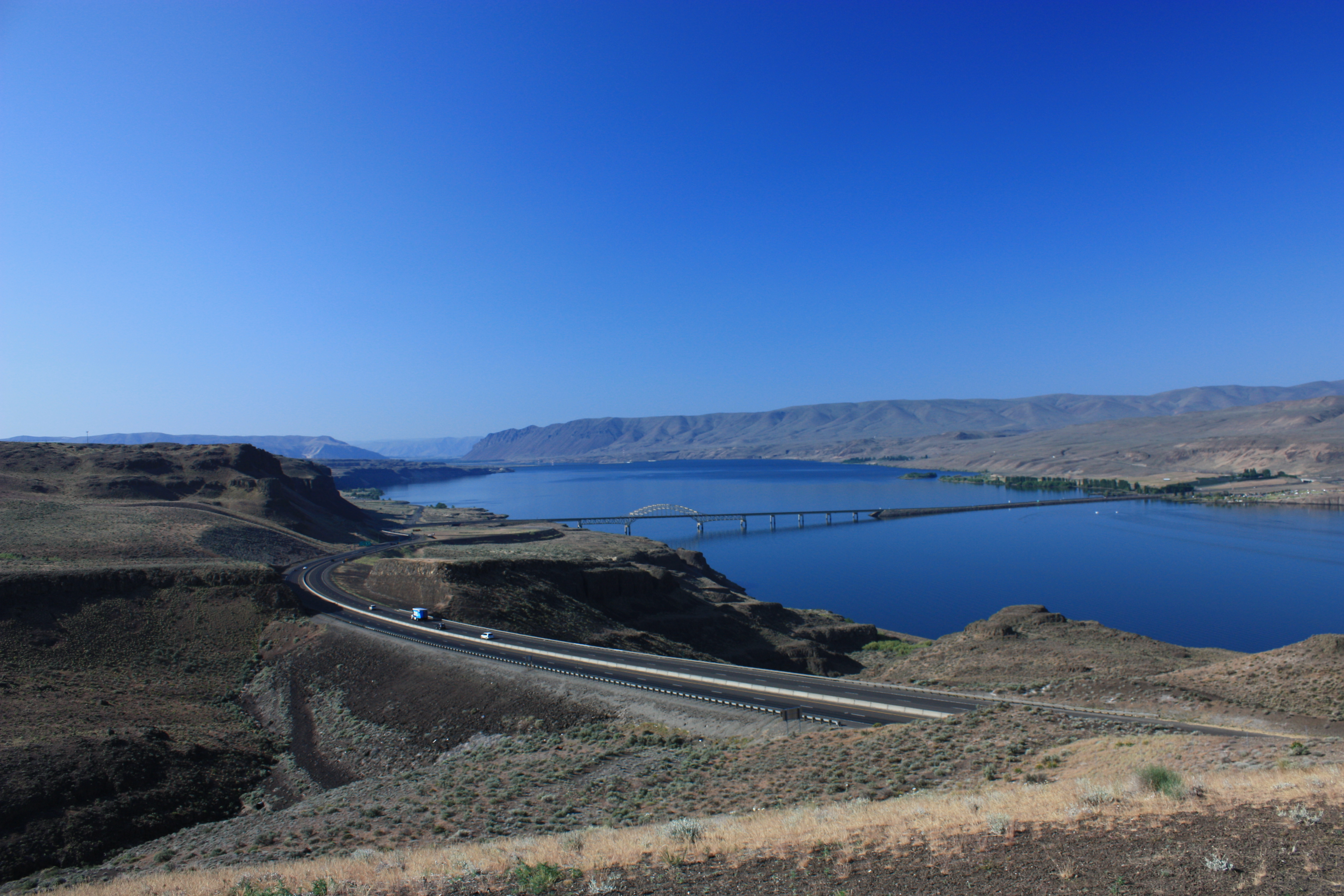 Vantage Bridge carrying Interstate 90 over the Columbia River near Vantage, Washington. May 2009.